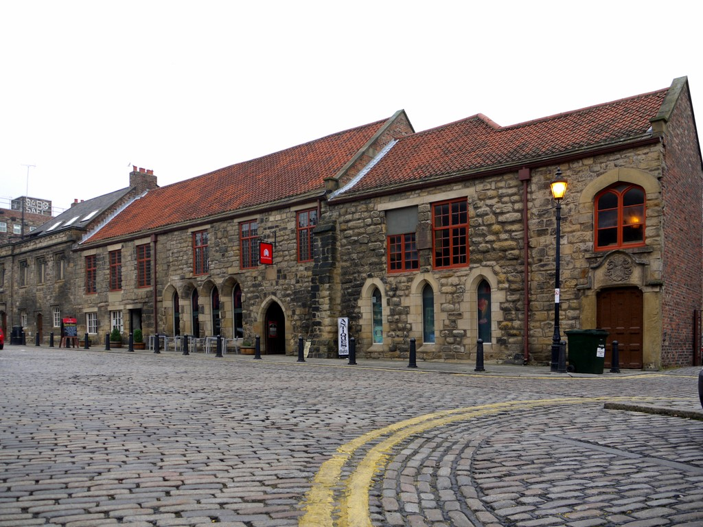 Blackfriars from Friars Street